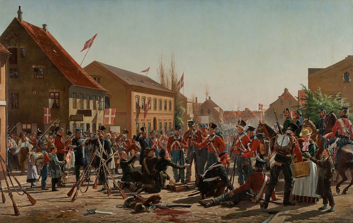 Schleswig-Holstein troops surrendering to the Danish army in Flensburg after the Battle of Bov on 1848-04-09